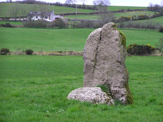 Standing Stone, Radergan. It is located here 1232099